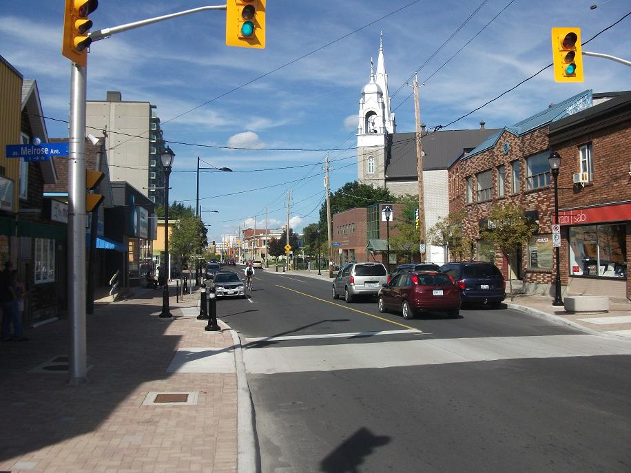 Wellington Street West at the intersection with Melrose Avenue, Ottawa, Ontario, Canada